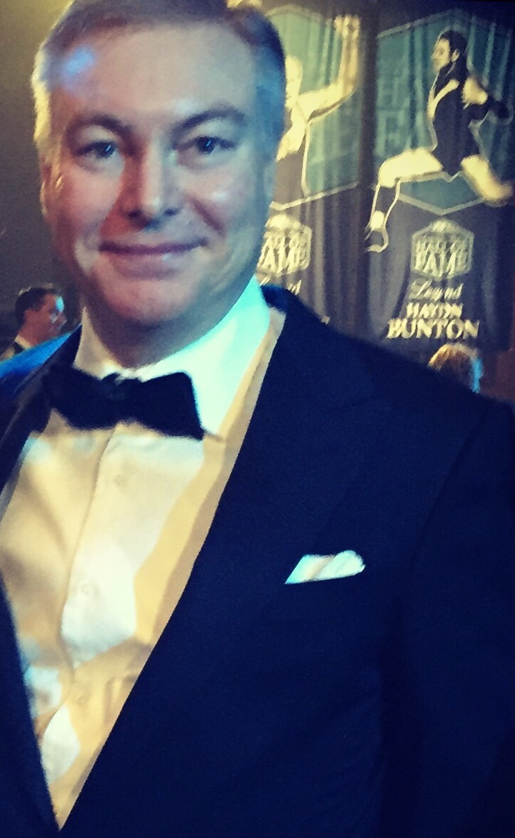 Hall of Fame